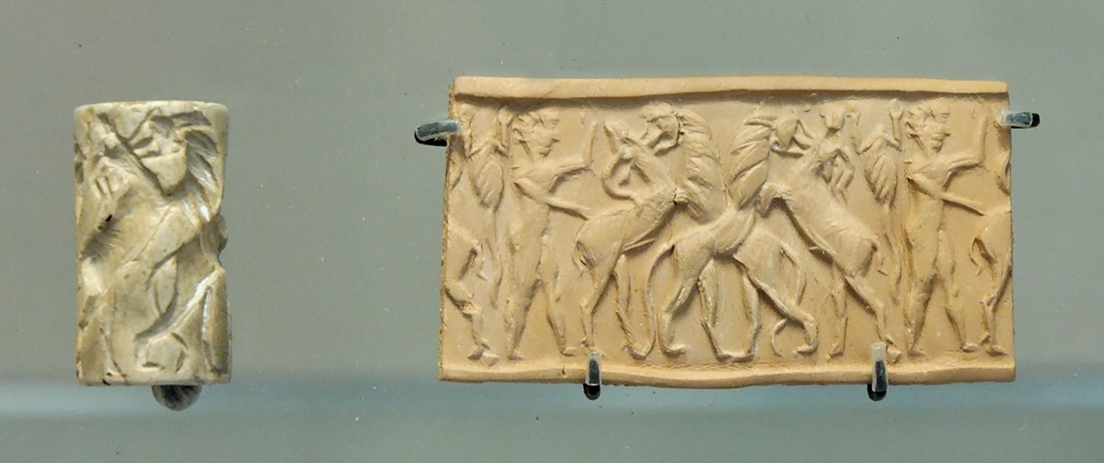 Cylinder seal and impression on clay: battle between heroes and animals. Limestone, Early Dynastic III (ca. 2500–2400 BCE), found in Mari.